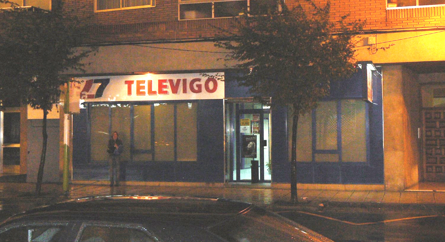 sede de TELEVIGO, la tv local de Vigo